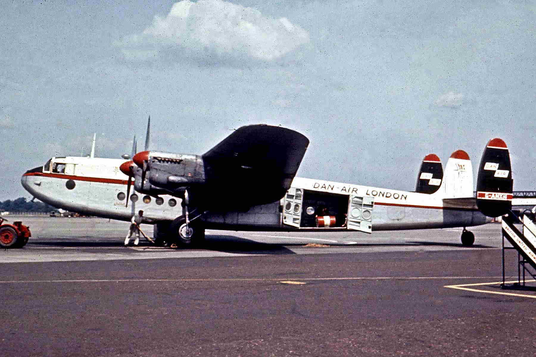 The original slide was a bit of a mess when it came out of the box. I've cleaned it up a lot but it's still a bit 'spotty'.